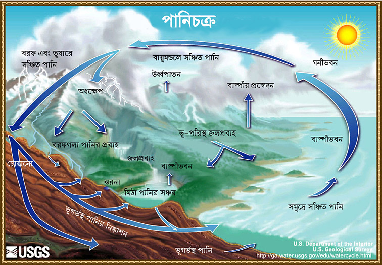 Water-Cycle Diagram (in Bengali)